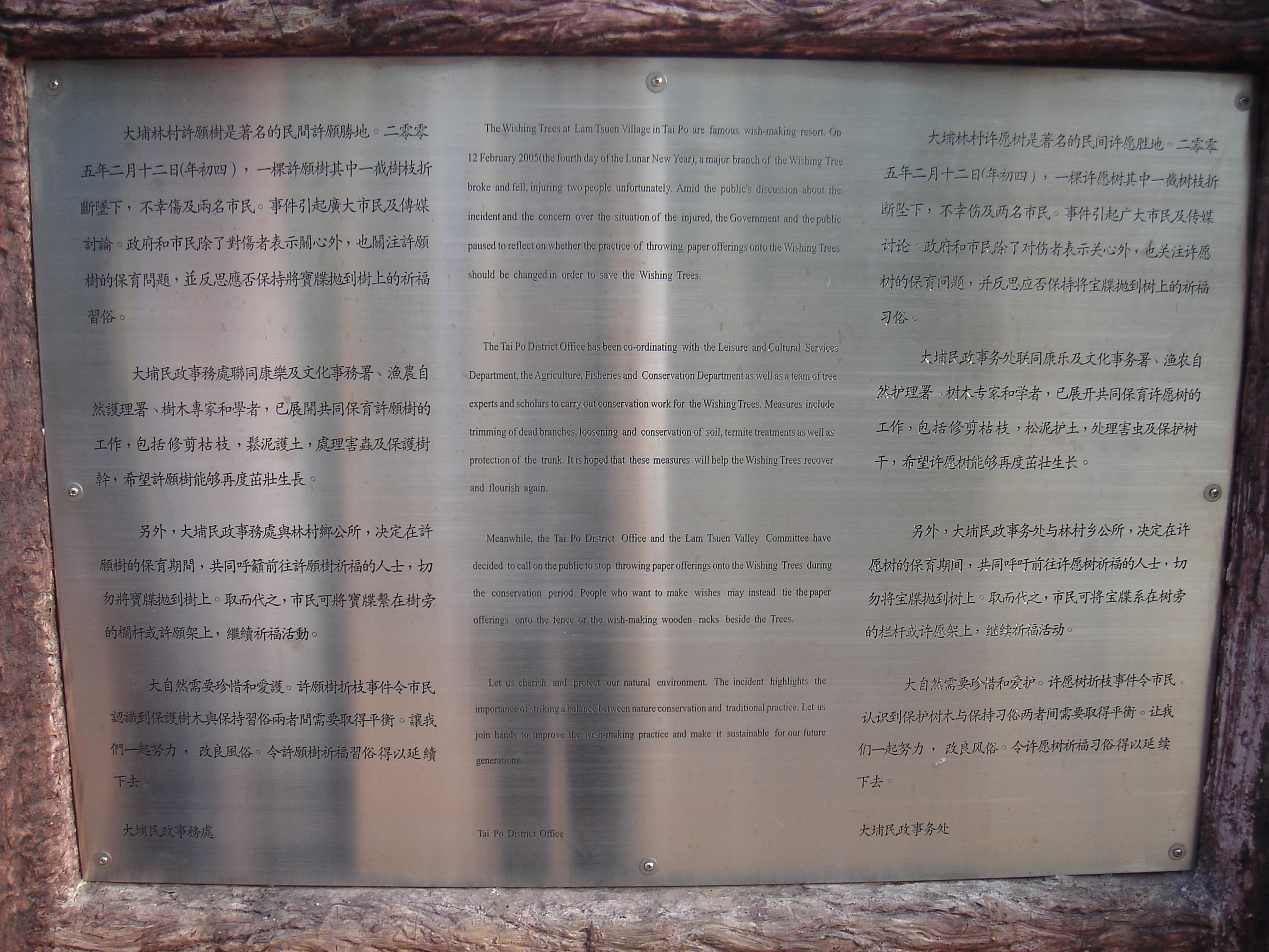 Plaque put up by the authorities near the Lam Tsuen Wishing Trees, describing the incident and conservation plan.